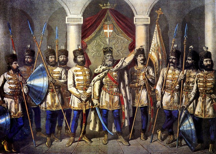 Jug Bogdan and sons or Jug Bogdan and Nine Jugović, work by Adam Stefanović (1832-1887)